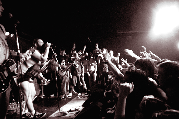 Dillinger Four, Fest Five, October 29th, 2006.